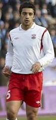 Spartak Nalchik footballer Aleksandr Amisulashvili